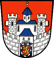 Coat of arms of the Geman city of Stadtoldendorf